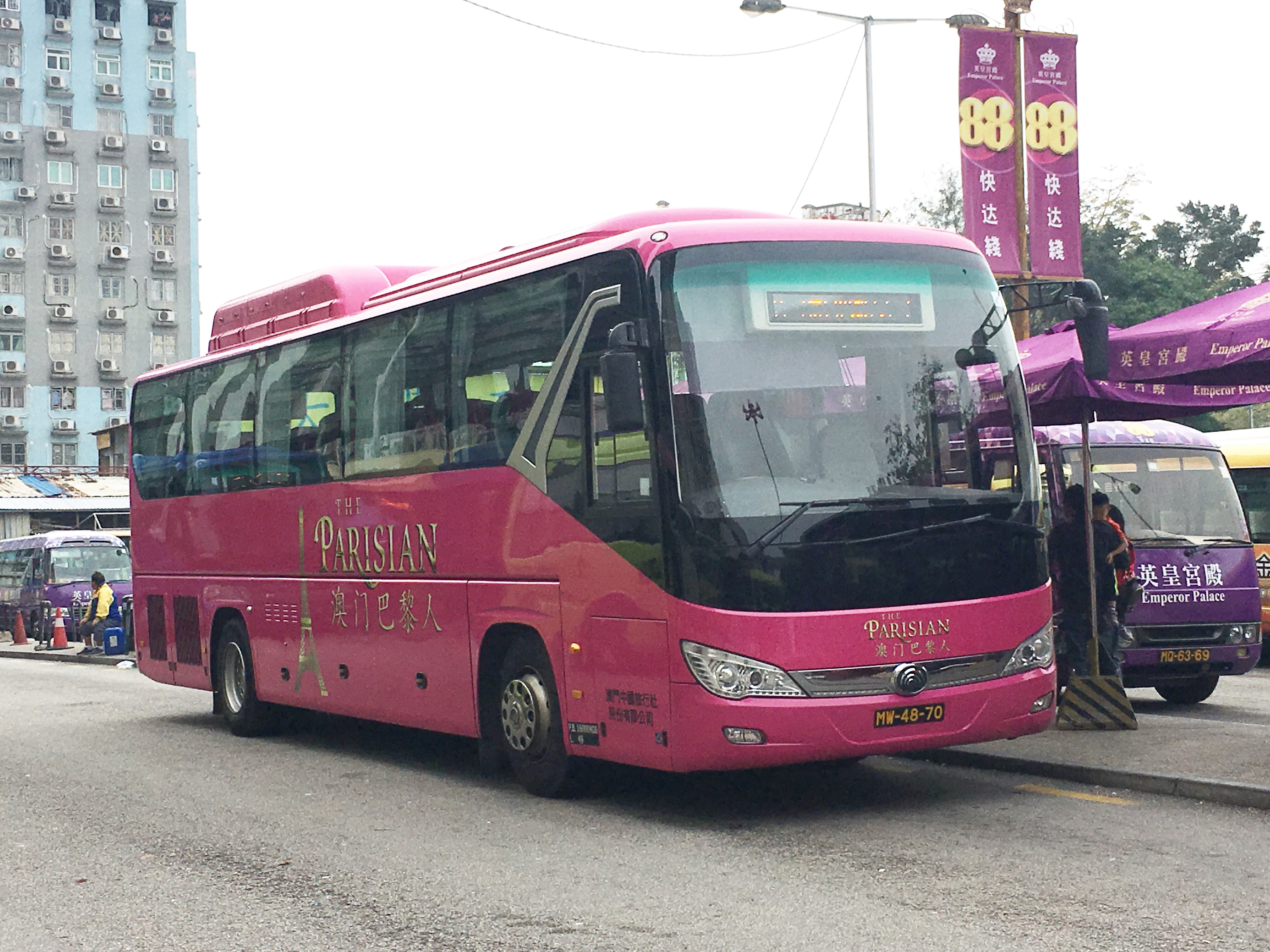 中文（香港）: This photo is taken in Boarder Gate.